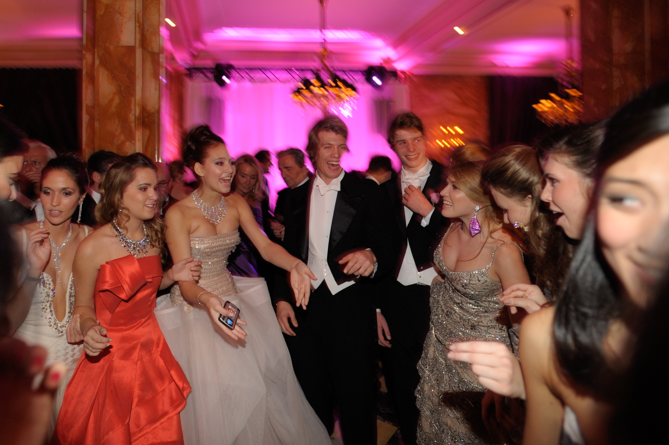 from le Bal des Debutantes 2009 at the Hotel Crillon in Paris